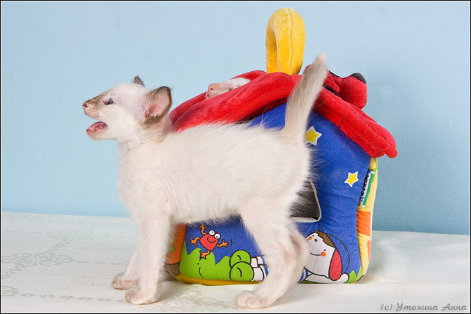 Balinese kitten Dizigner Frtuna Shine